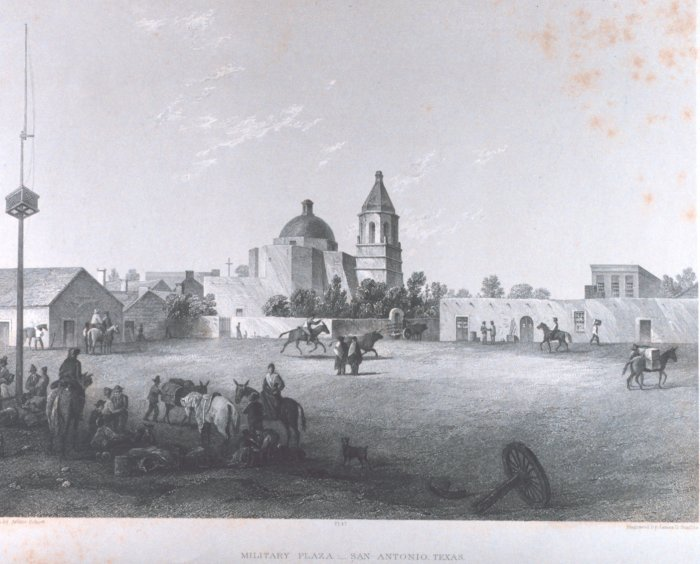 The military plaza at San Antonio, Texas. In: "United States and Mexican Boundary Survey. Report of William H. Emory ...." Washington. 1857. Volume I. Frontispiece. Copied from: NOAA.